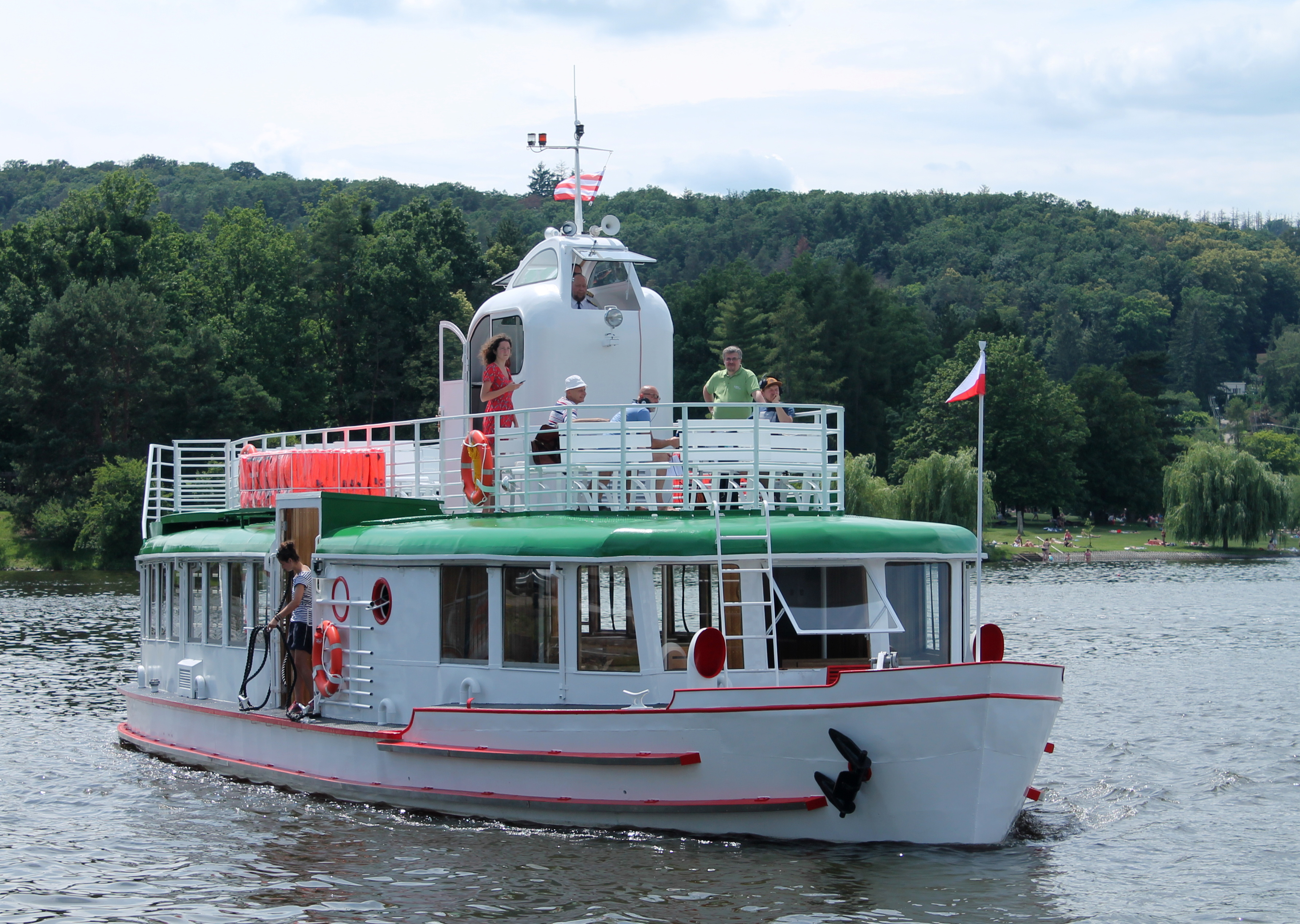 Morava ship, Brno, Czech Republic